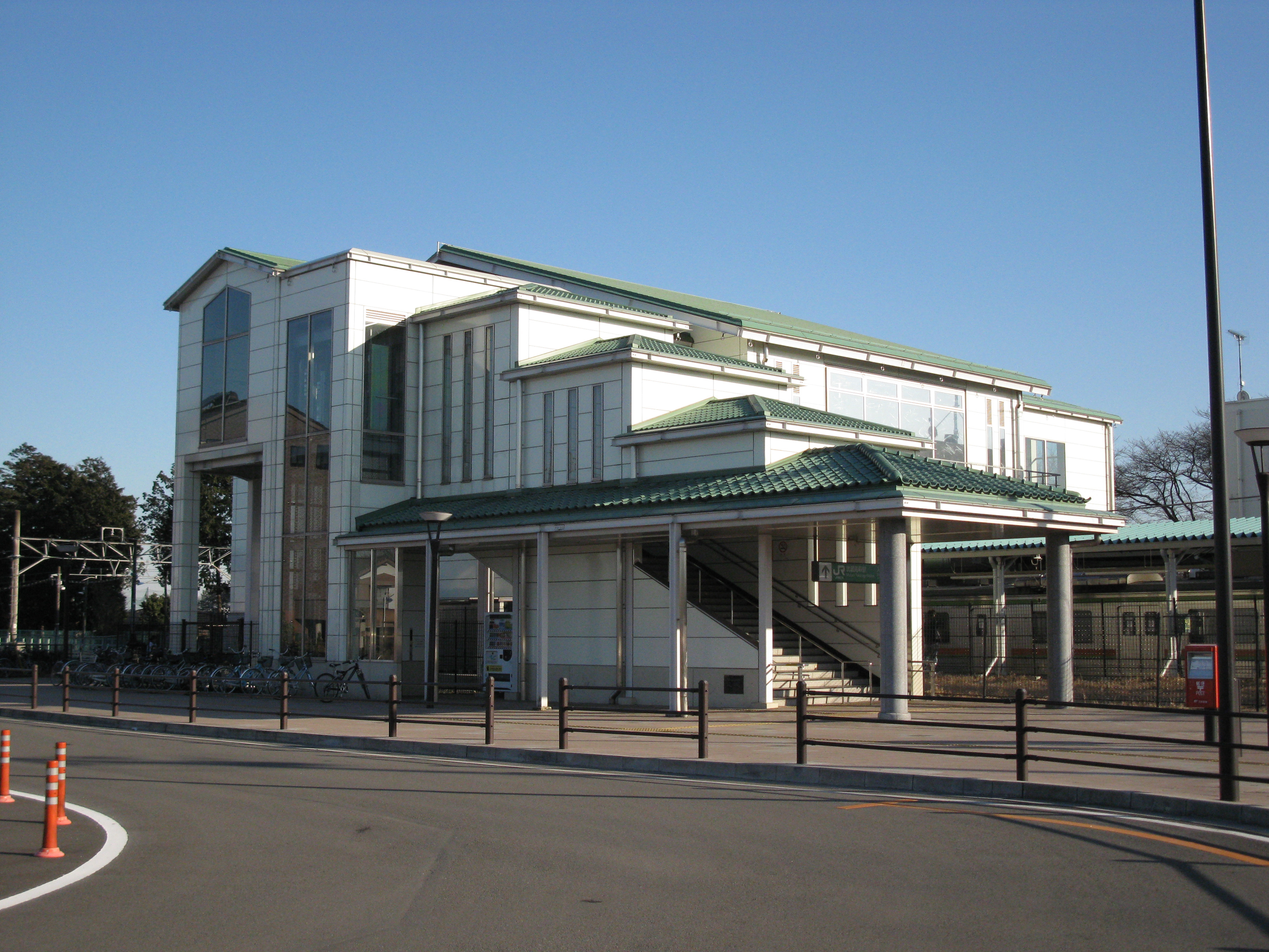 Musashi-Takahagi Station north entrance (East Japan Railway Kawagoe Line)